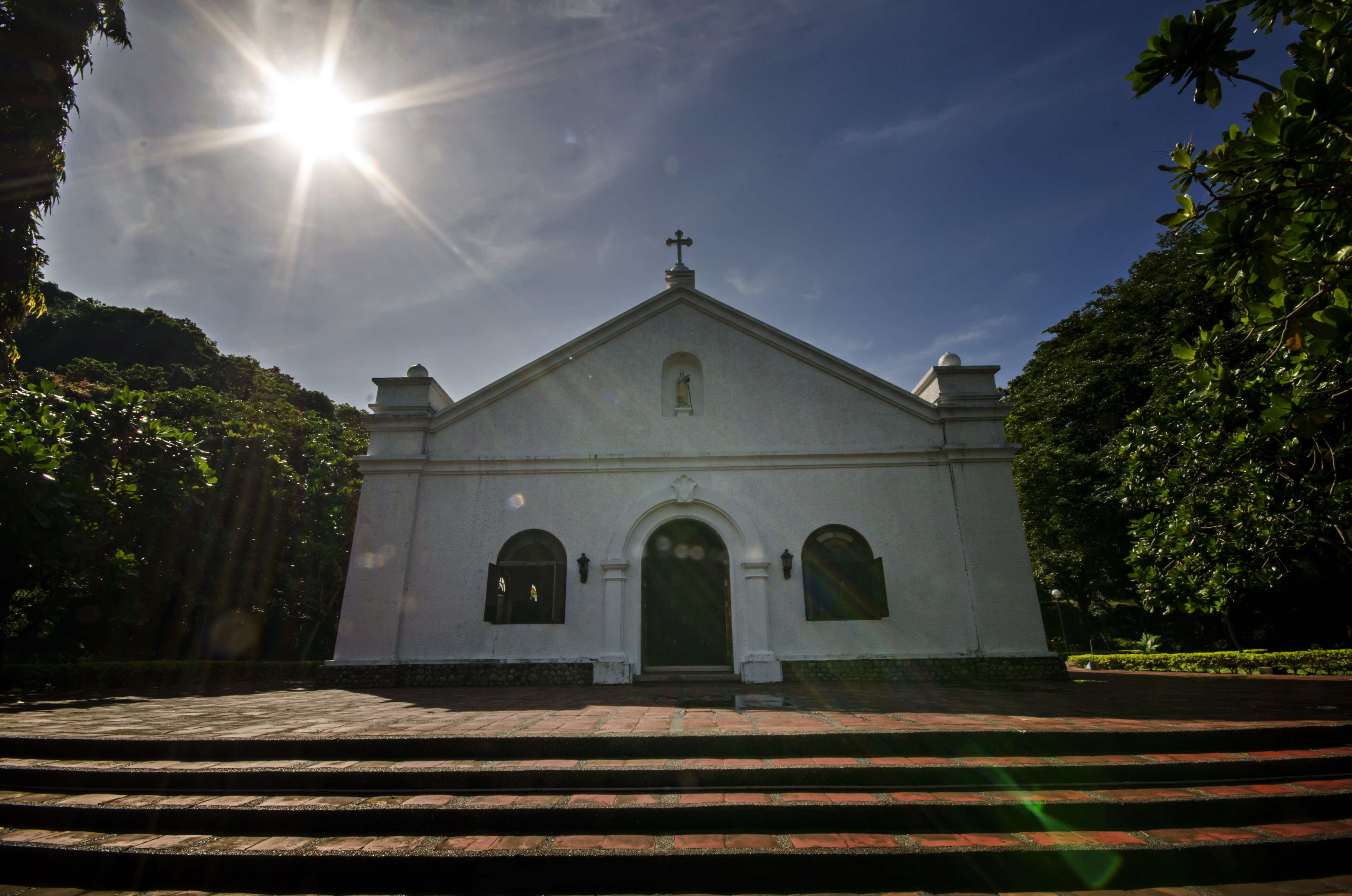 San Jose Chapel in Corregidor